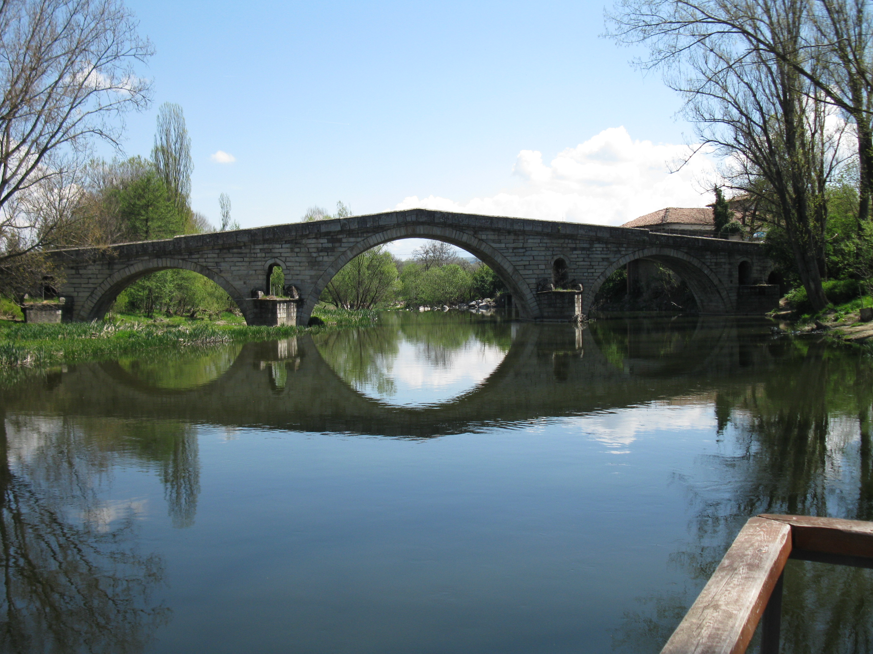 Kadin Most a.k.a. Kadin Bridge in Nevestino, Bulgaria